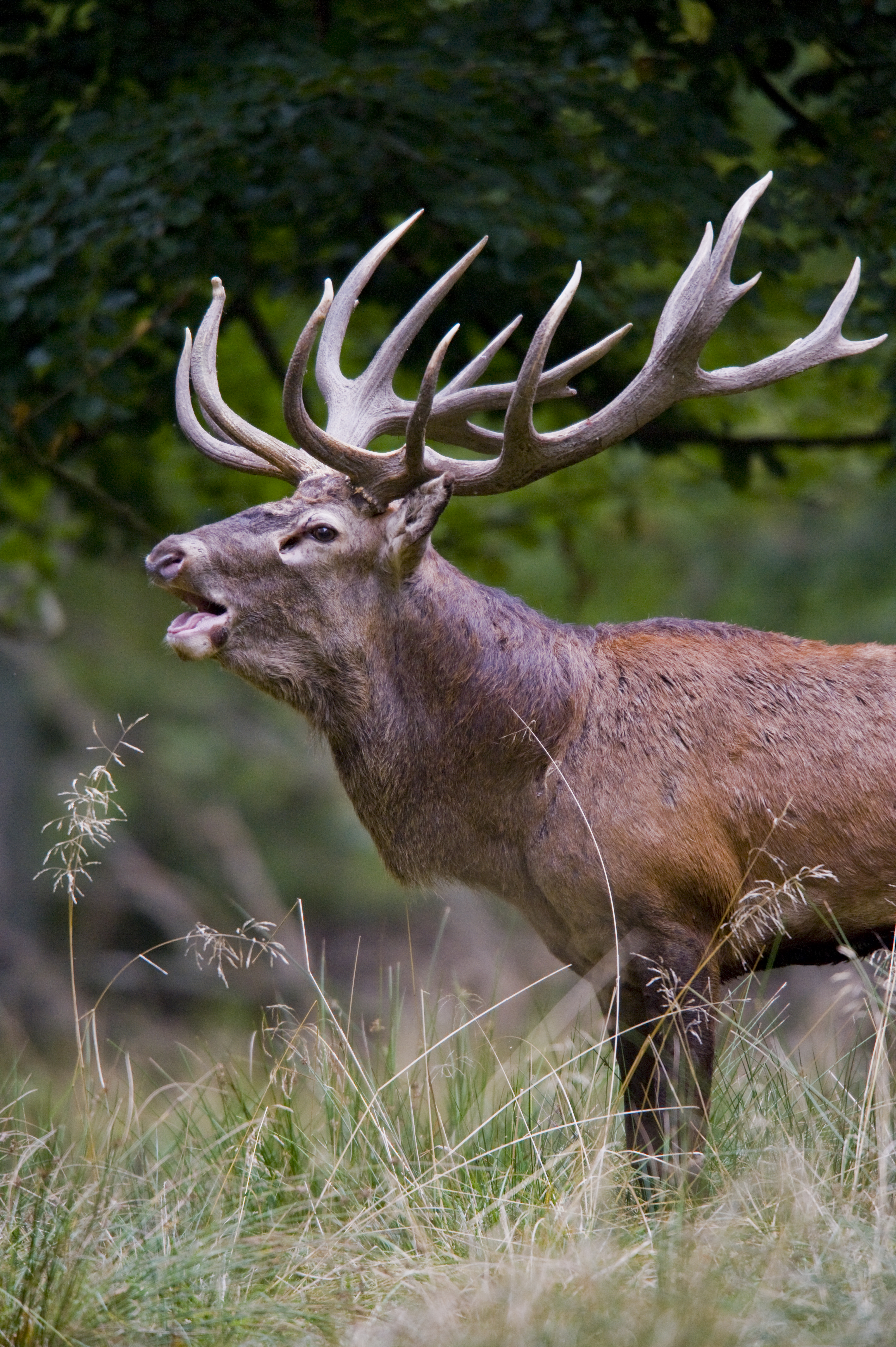 Red deer stag. Picture taken during rut (mating season) 26. september 2009 in Jægersborg Dyrehave in Denmark.